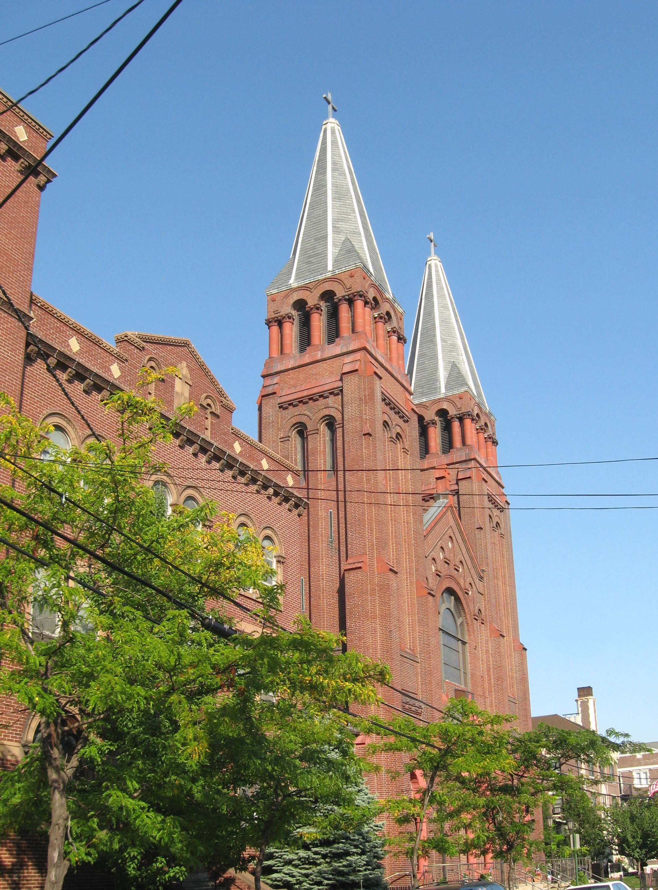 Looking northeast at Our Lady of Mount Carmel parish church in Bayonne New Jersey in the Roman Catholic Archdiocese of Newark on a sunny afternoon